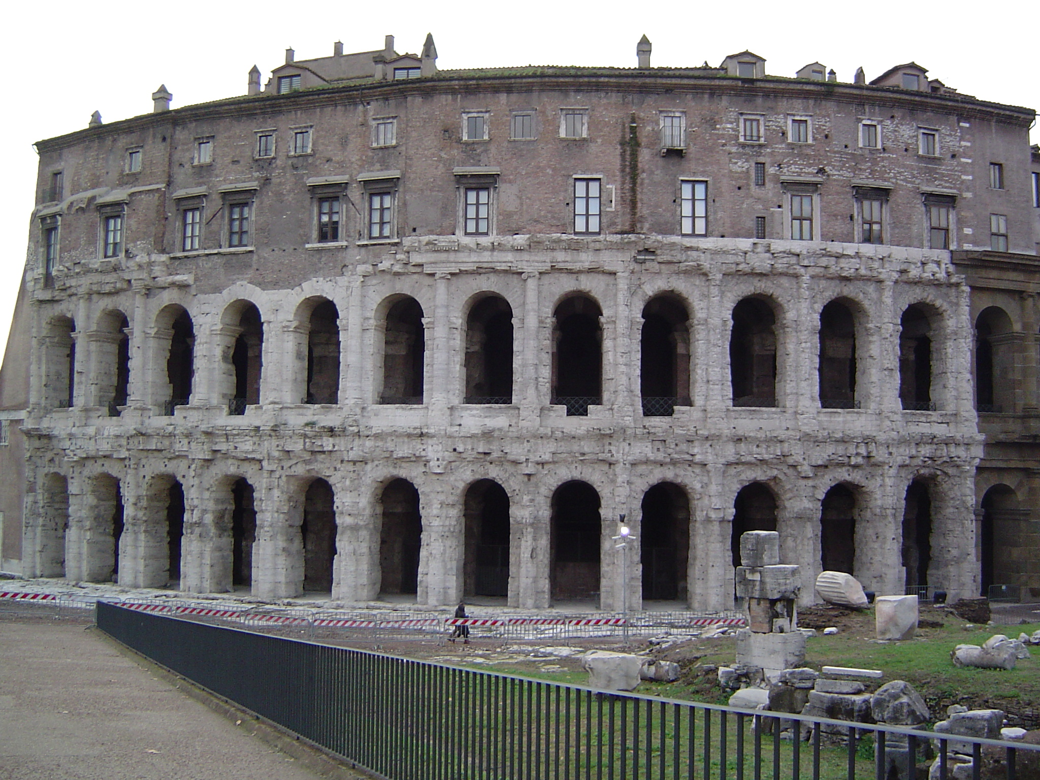 Theatre of Marcellus, Rome - Italy Made by Joris van Rooden, the Netherlands on 06-01-2006